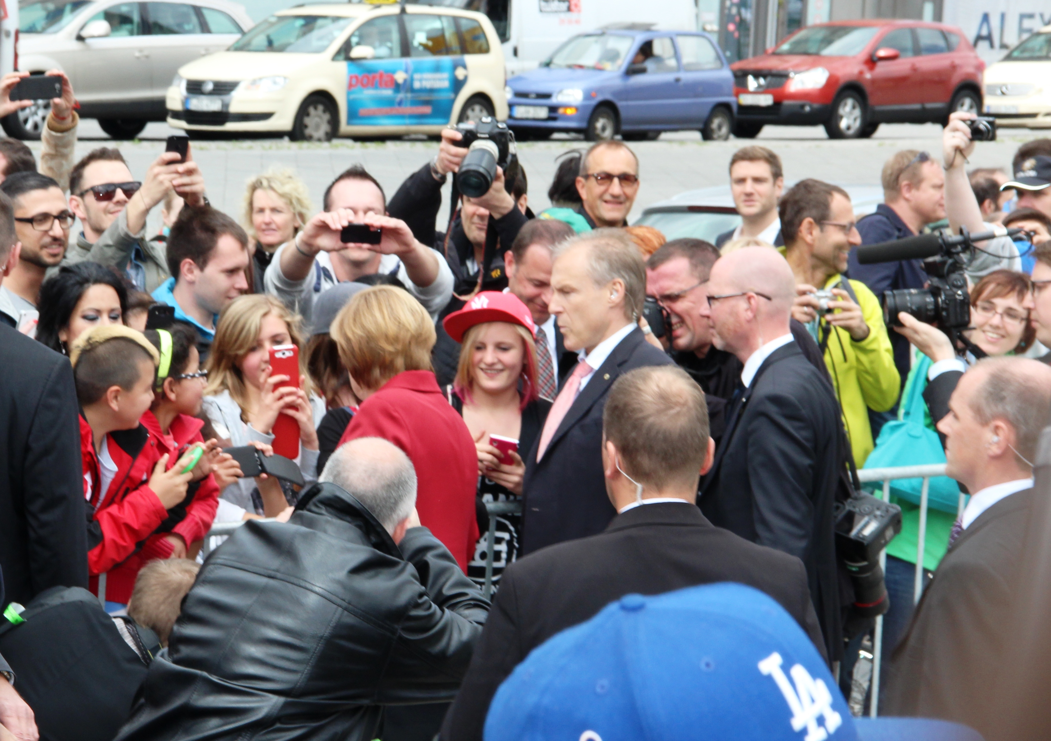 Angela Merkel with several Bodyguards